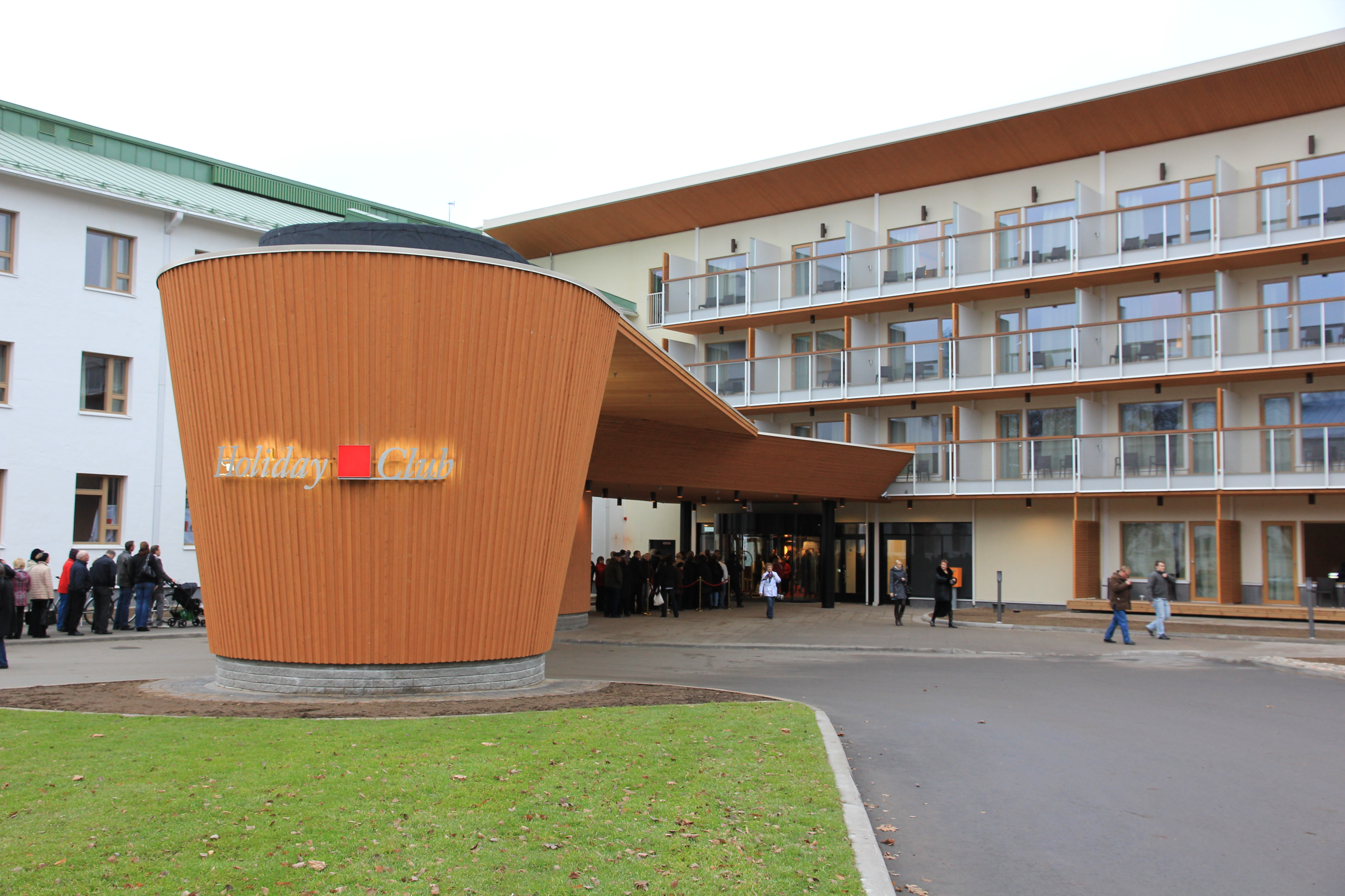 Holiday Club Saimaa hotel in Rauha.